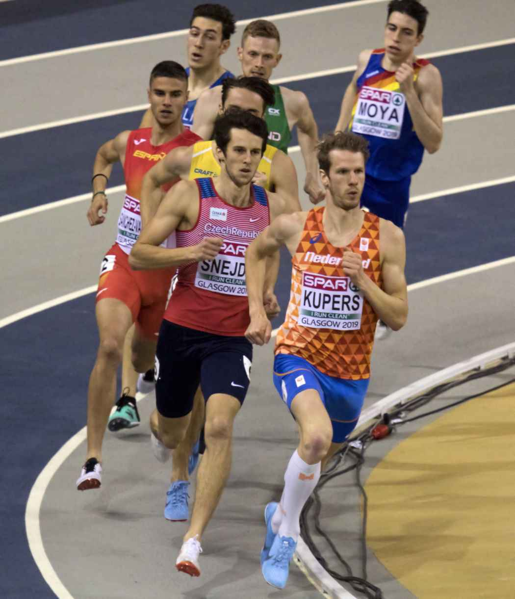 800m heat 4th, Glasgow 2019